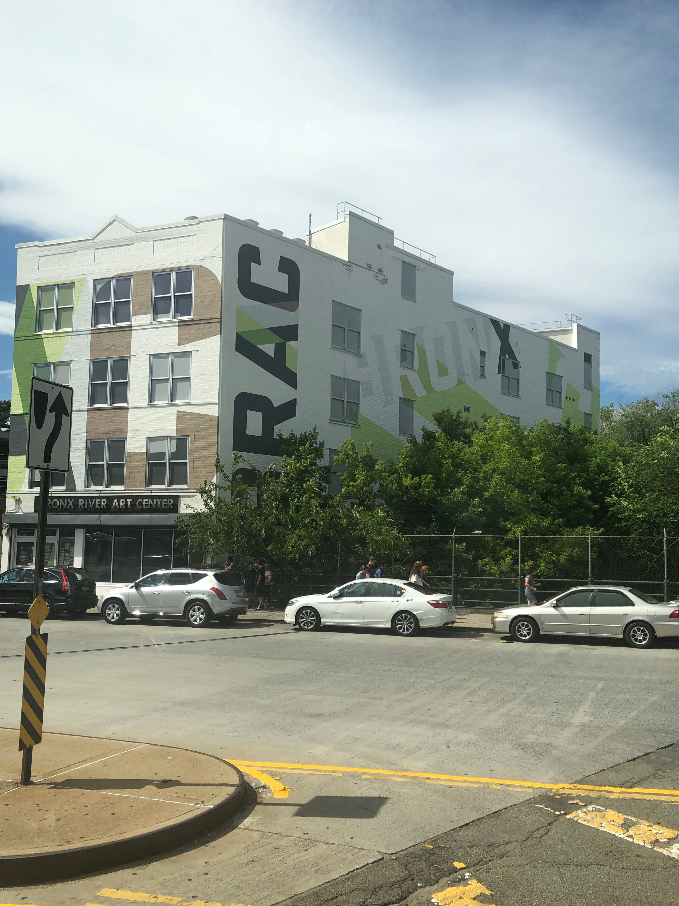 Bronx River Art Center in West Farms, The Bronx